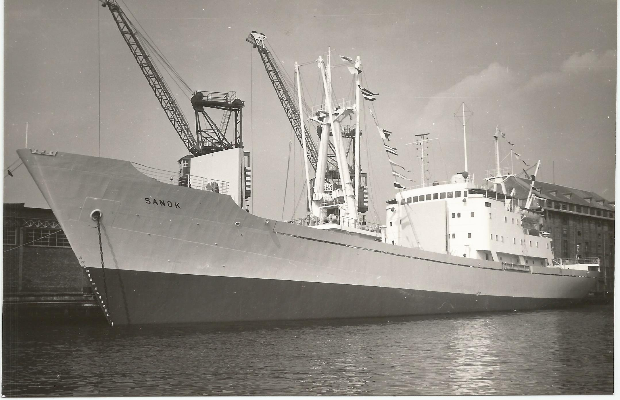 Polisch general cargo ship MS Sanok of Polish Ocean Lines